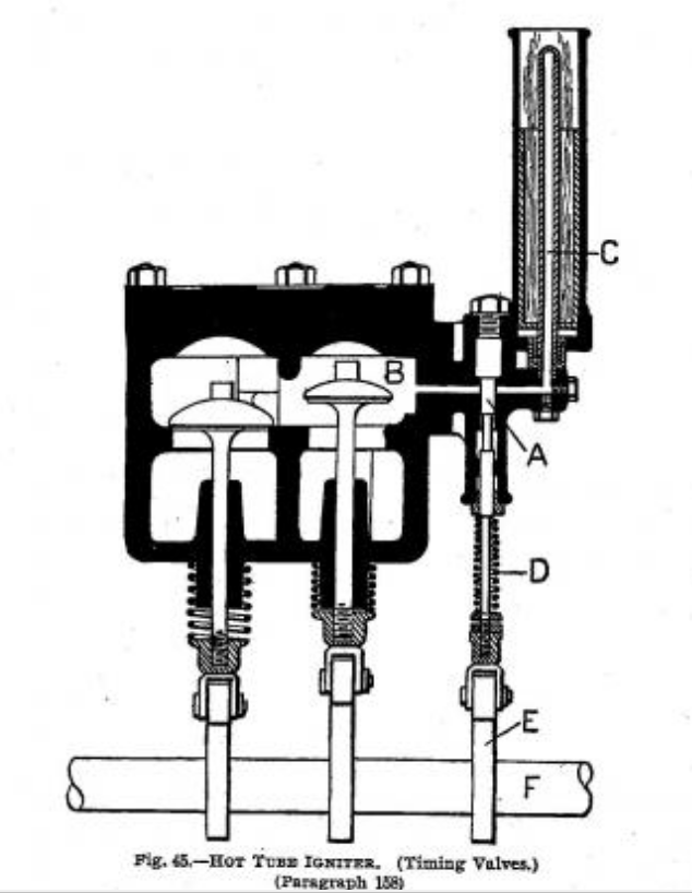 Hot tube igniter. Gas engines ignition system